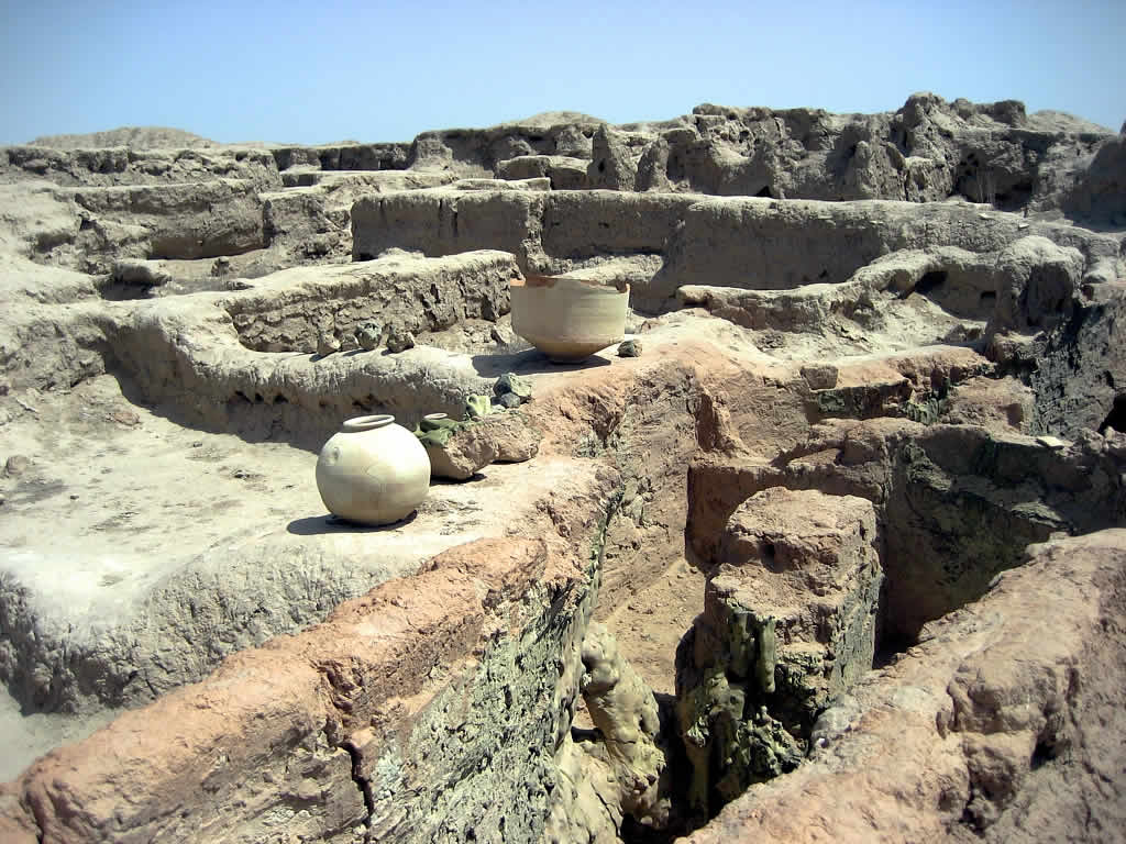 ruins of Gonur Tepe, Turkmenistan